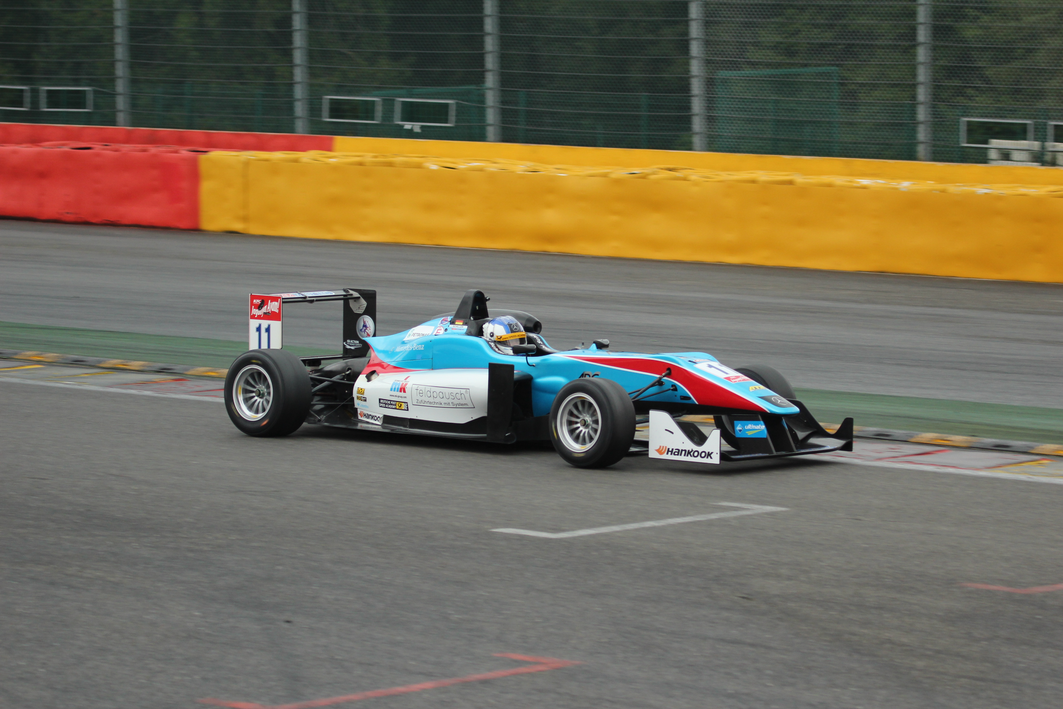 Fabian Schiller at Spa in 2015, European Formula 3 Championship